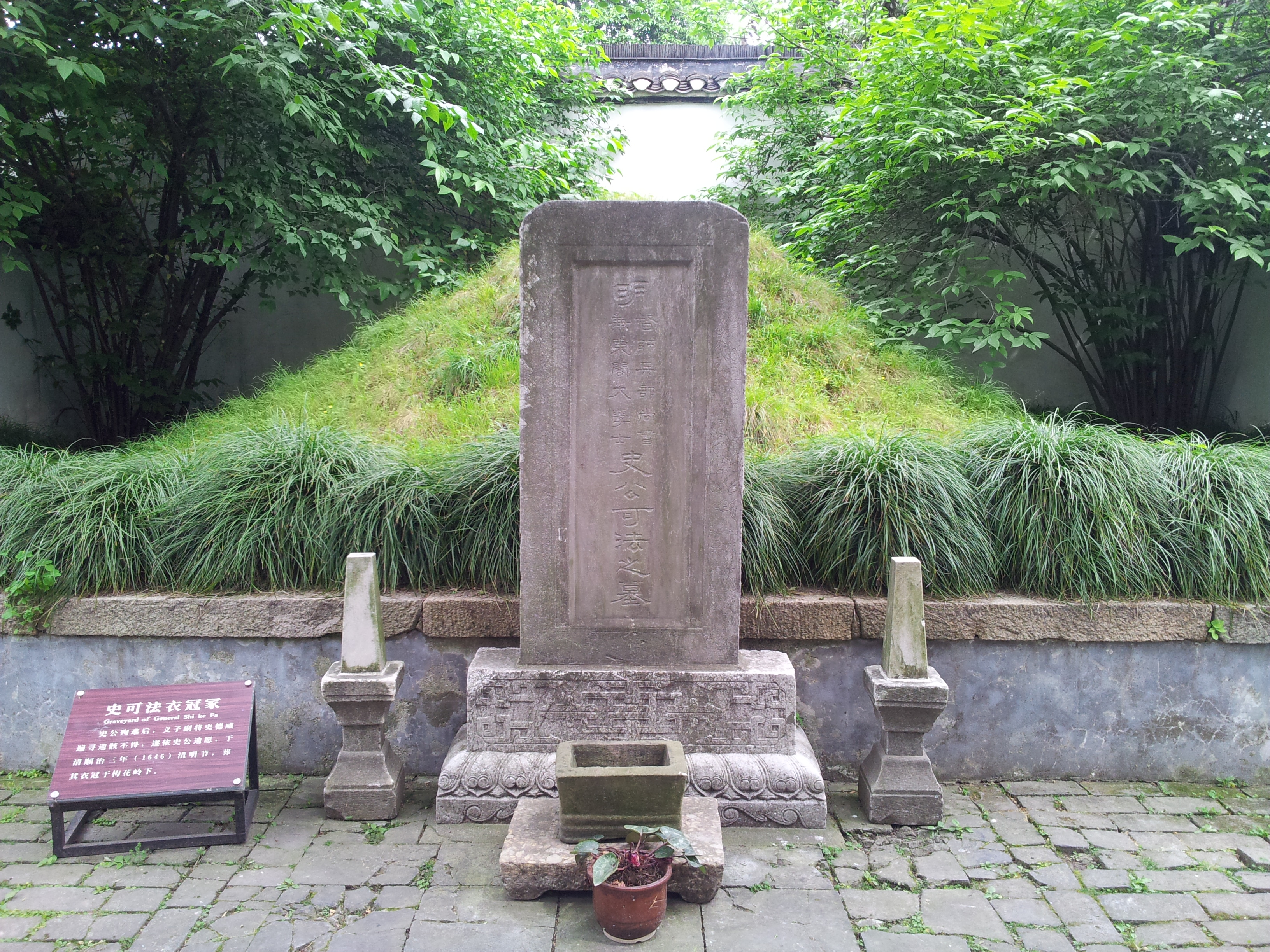 Cenotaph of Shi Ke Fa